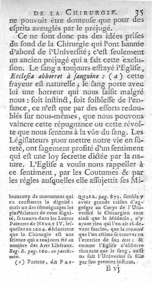 The famous quote "Ecclesia abhorret a sanguine" is never found in any document of the Catholic Church. It has been created by François Quesnay in his history of surgery in France written in the year 1744. The image is the scan of the page containing the quote. This is its first ever source. No older sources can be found. (See the discussion of this source in Charles H. Talbot, Medicine in Medieval England, London: Oldbourne, 1967)